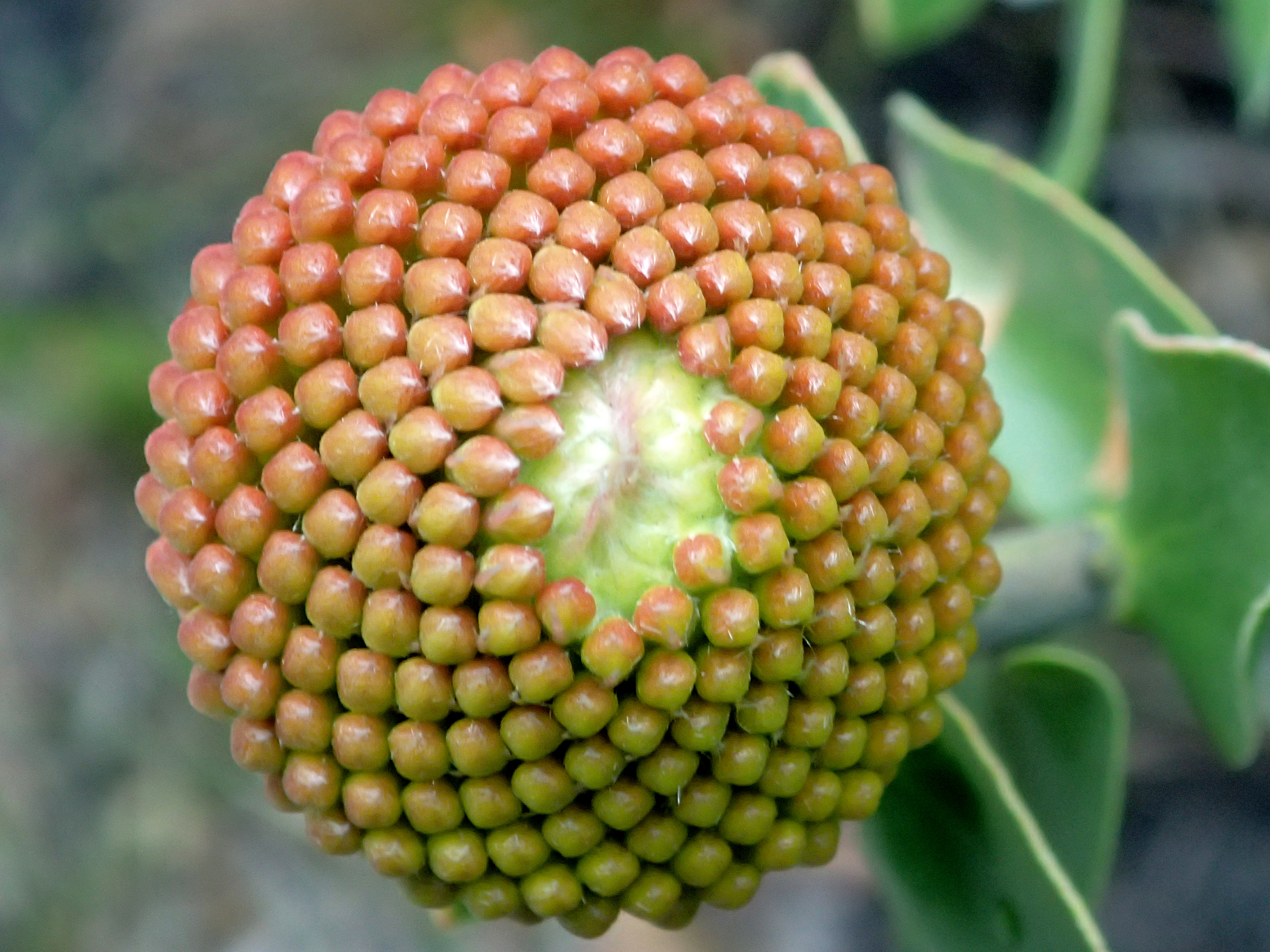 The pincushion Leucospermum cordifolium, photographed just outside of the managed gardens of Harold Porter NBG, in Betty's Bay, Western Cape, South Africa